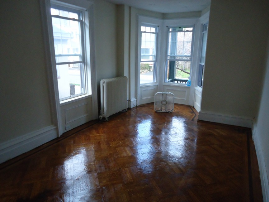 An old carpet was removed; the floor was sanded and coated to look shiny and new.